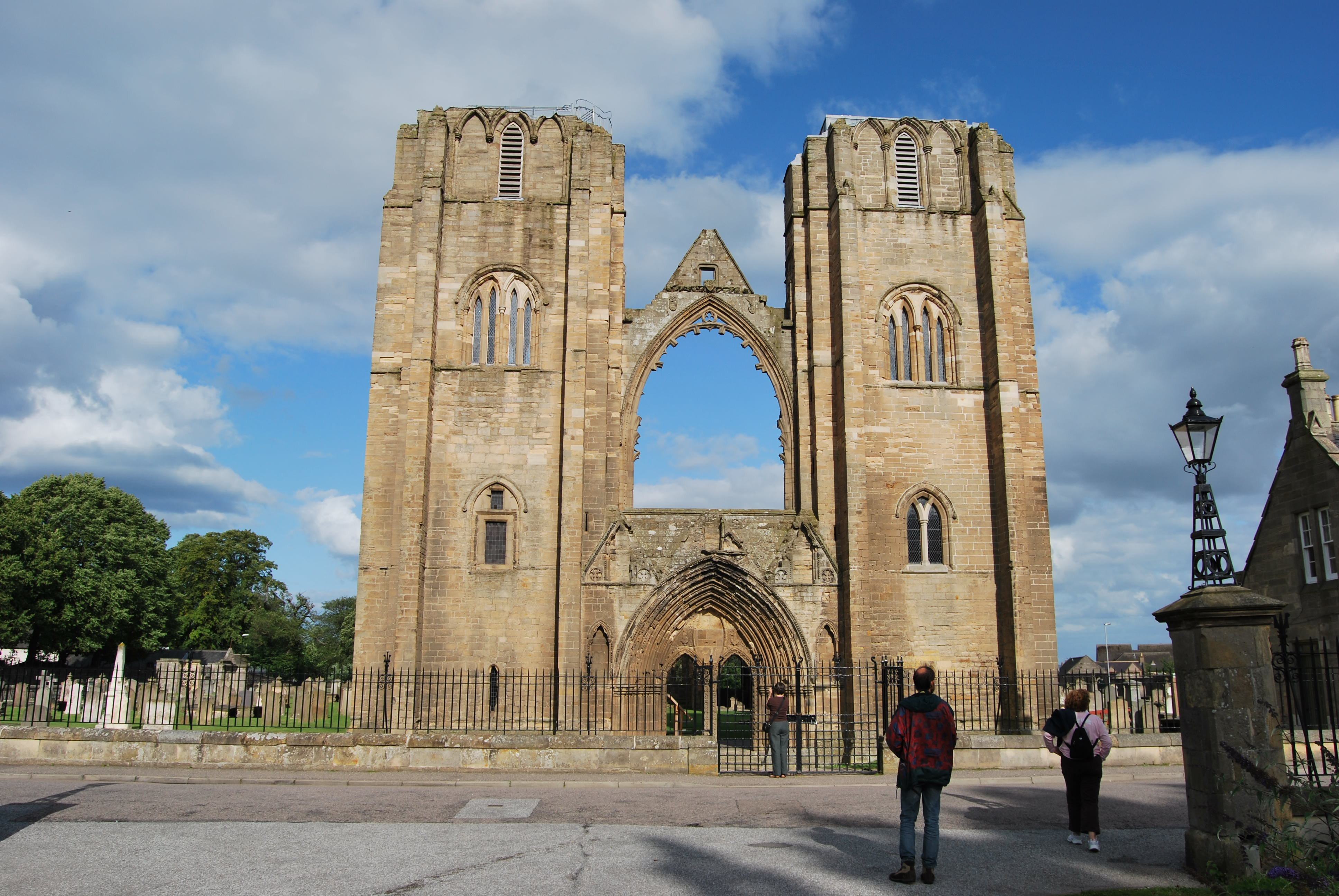 Elgin Cathedral